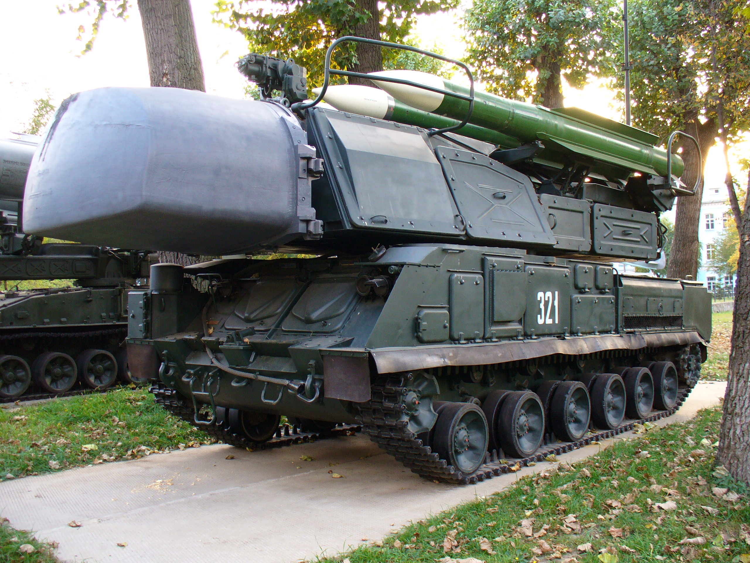 The Buk missile system 9K37M "Buk-M1" (SA-11). Ukrainian Air Force Museum in Vinnitsa.